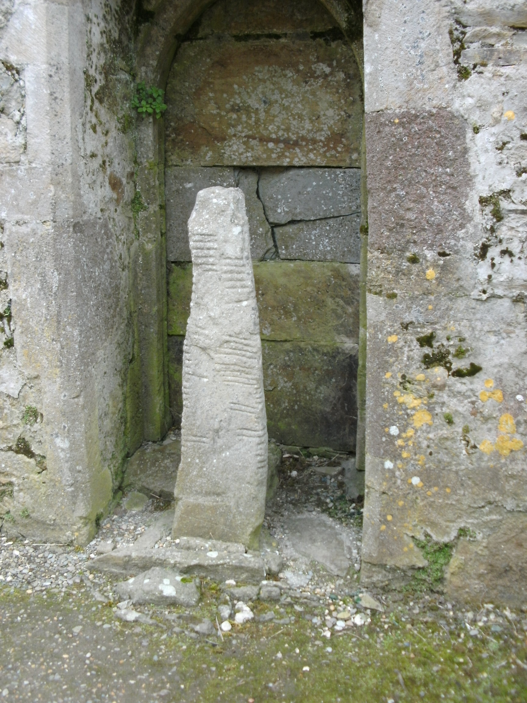 Ardmore Cathedral